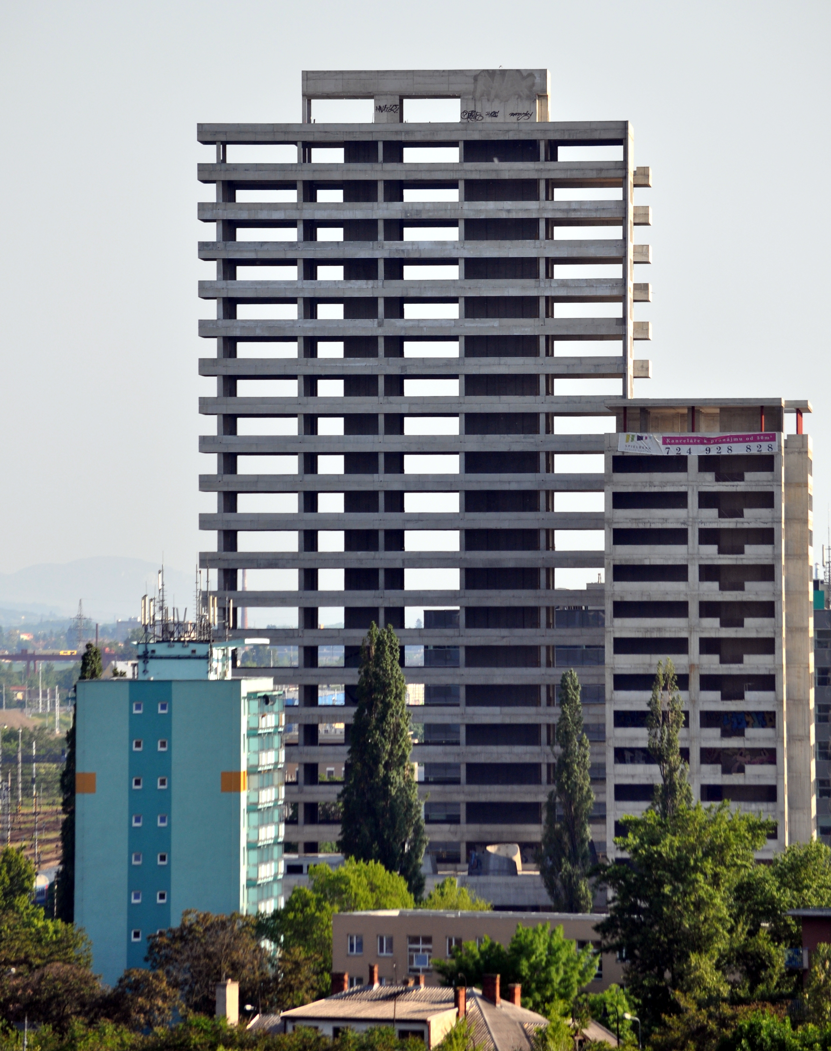 Spielberk Office Centre under construction I